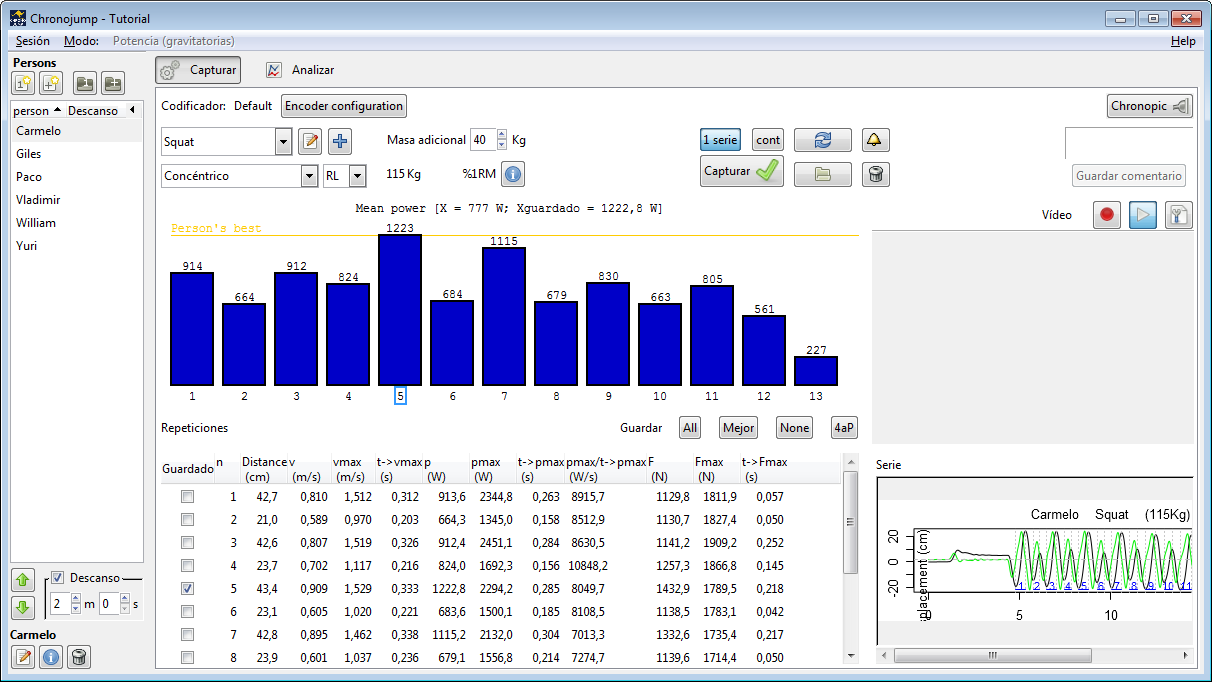 Chronojump encoder use. Version 1.7.0